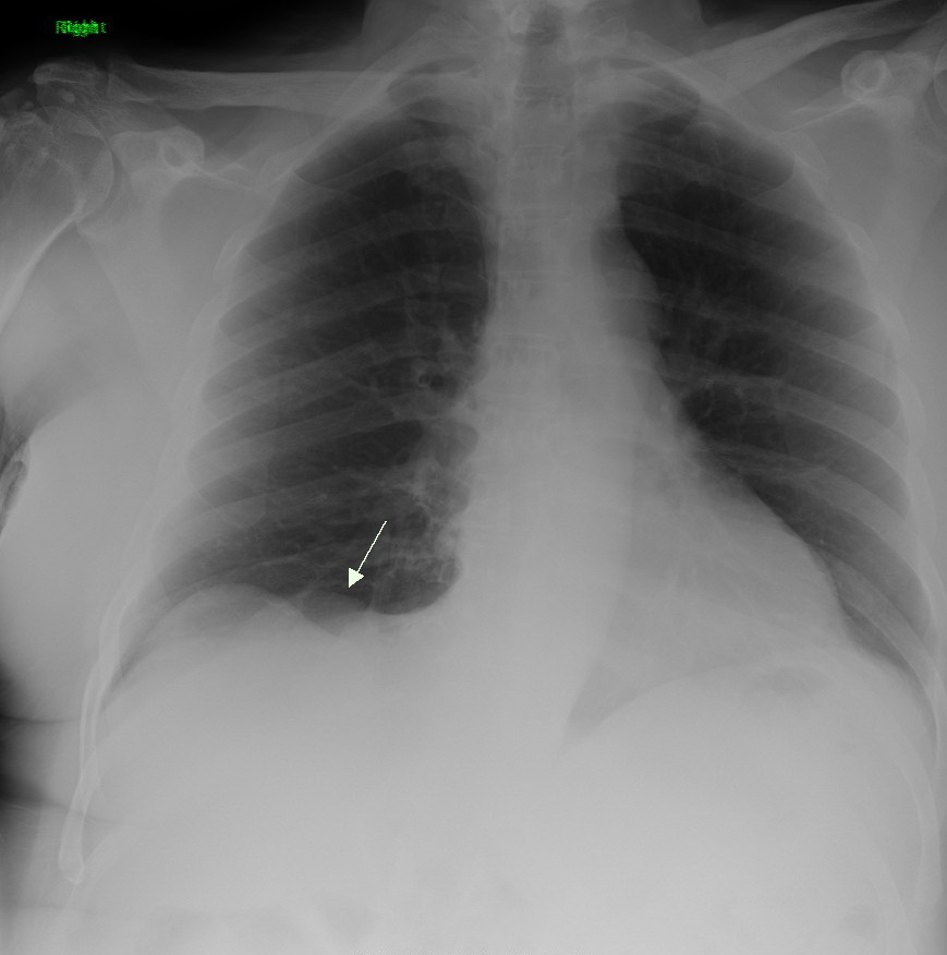 Primary pulmonary sarcoma in aa asymptomatic 72-yr old male. Neoplasm couldn't be subtyped.